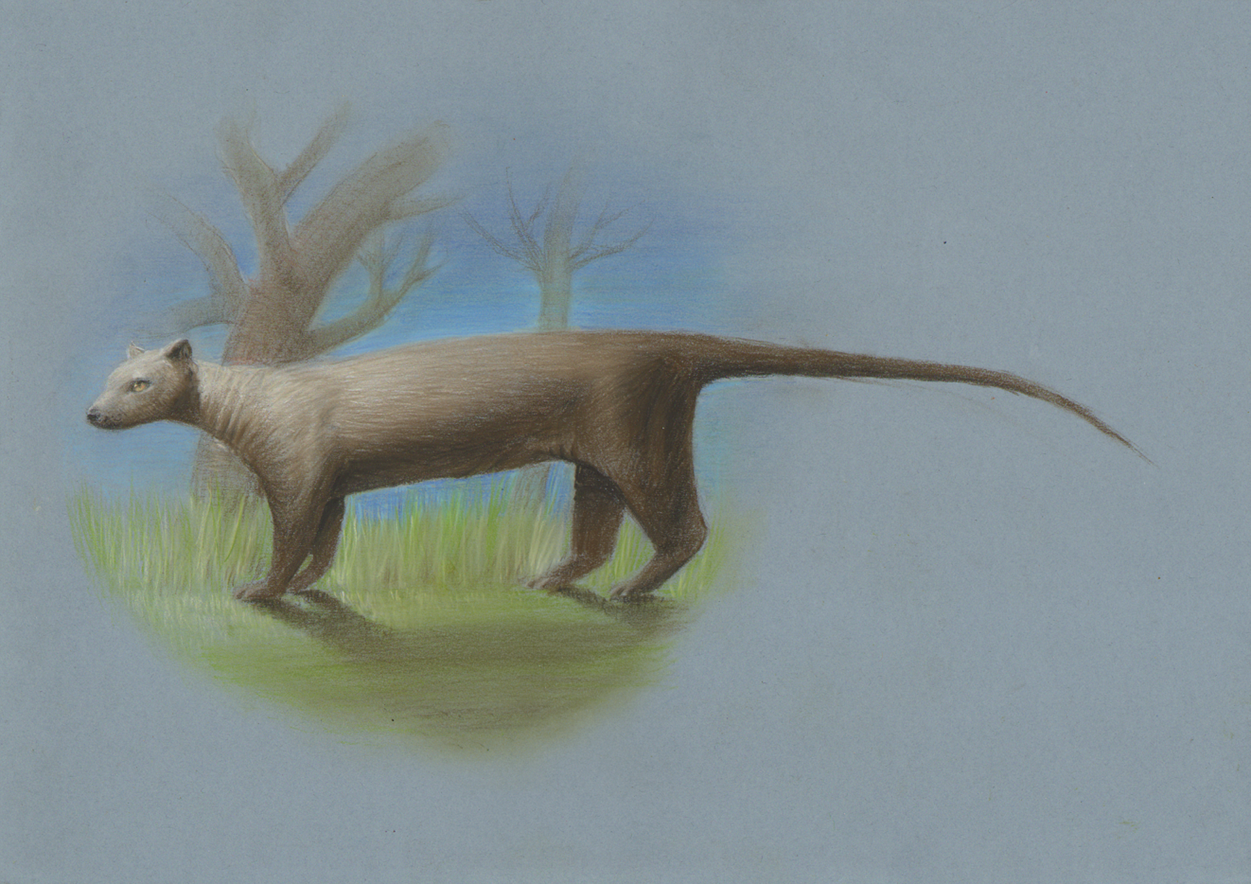 Illustration of the extinct giant fossa (Cryptoprocta spelea). Drawing on paper scanned.